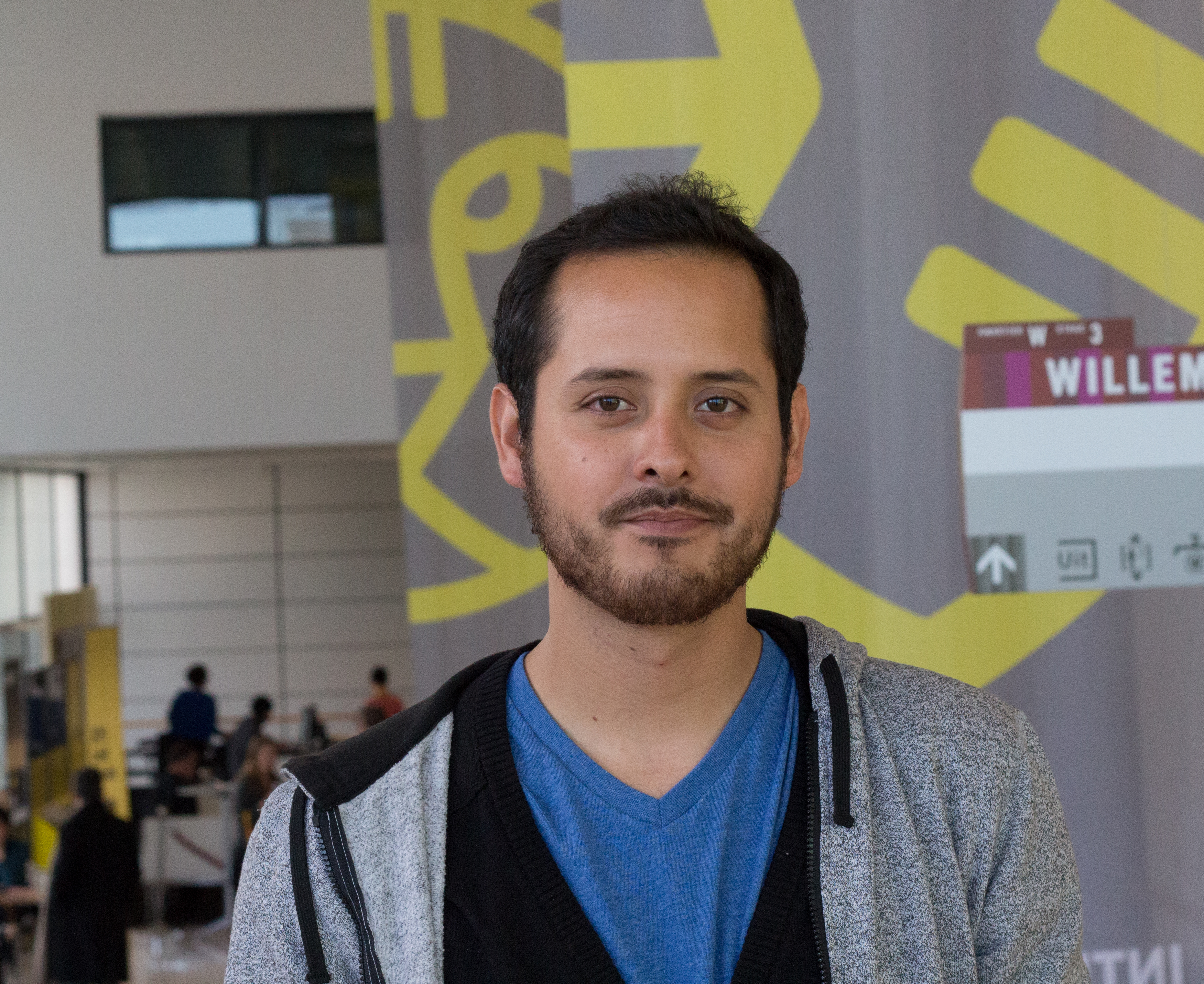 Muki Sabogal at the International Film Festival Rotterdam